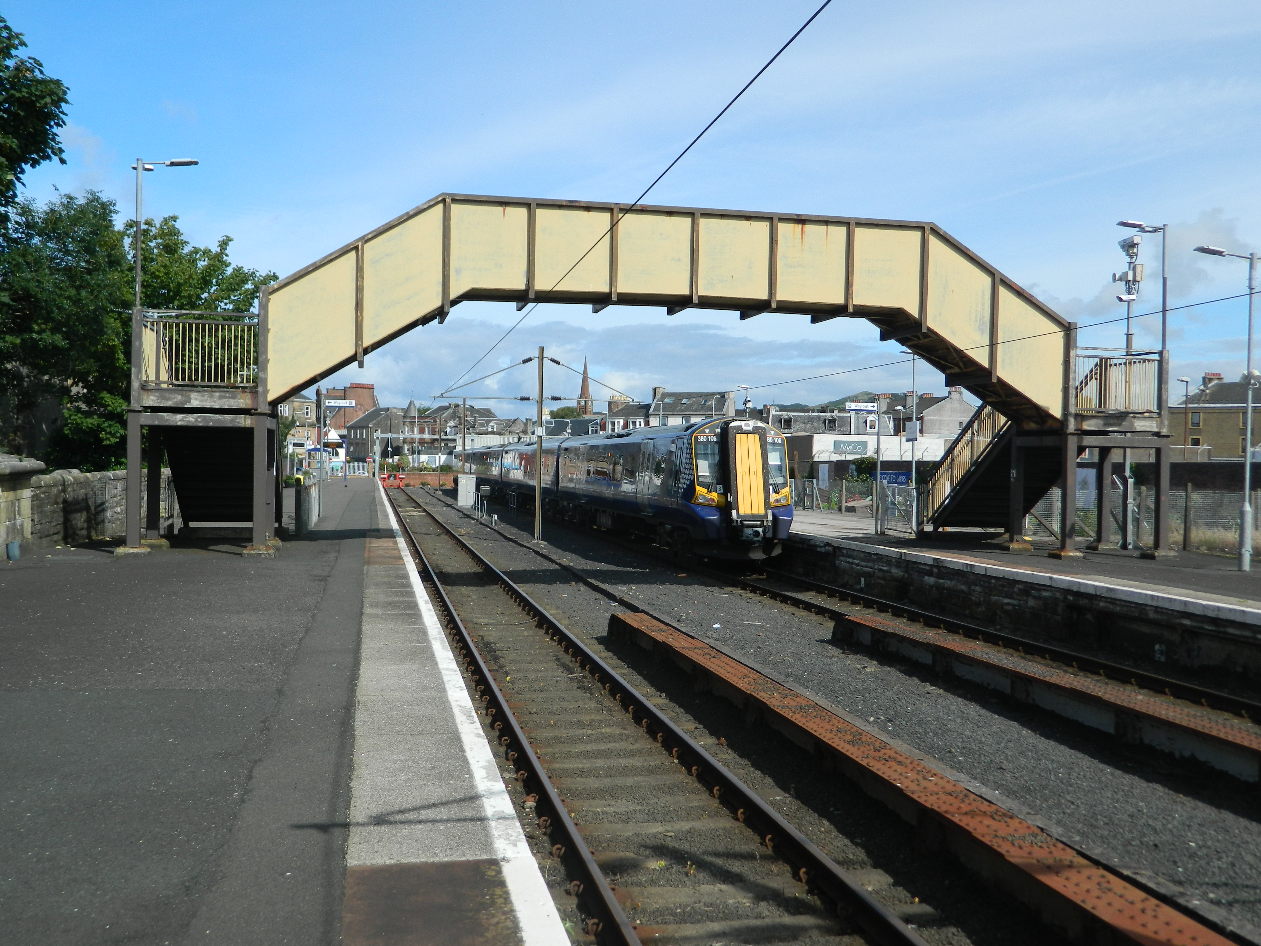 380106 having worked a Glasgow Central to Largs service, waiting to work back to Glasgow Central.